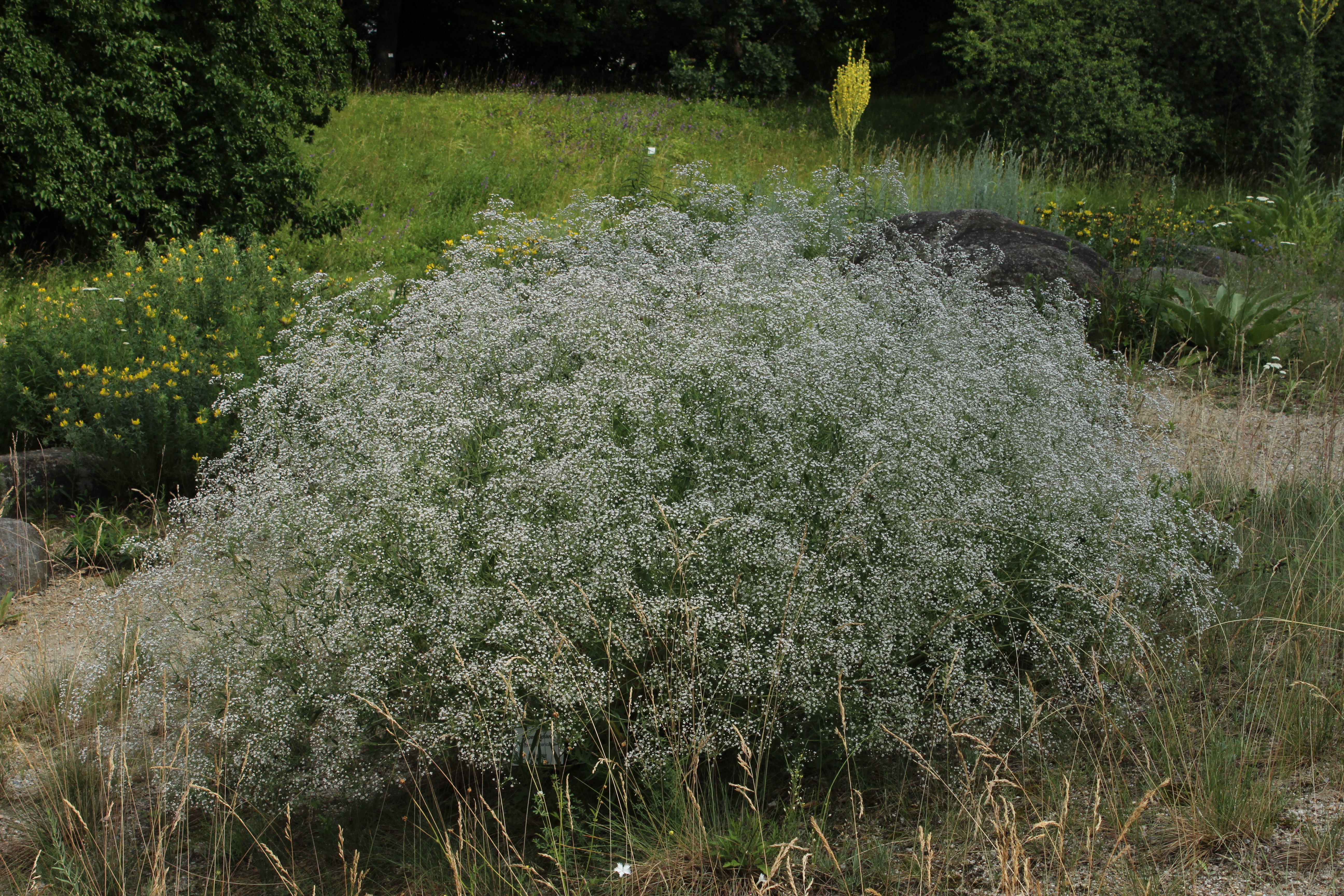 Gypsophila paniculata in the Botanical Garden of the University of Vienna. Identified by sign.